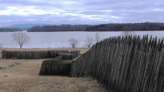 The palisades of the reconstructed Fort Loudoun at Fort Loudoun State Park in Vonore, Tennessee, located in the southeastern United States. The fort was built by the English in 1756 and operated until 1760, when it surrendered to a Cherokee siege. The confluence of the Little Tennessee River and Tellico River is in the distance.